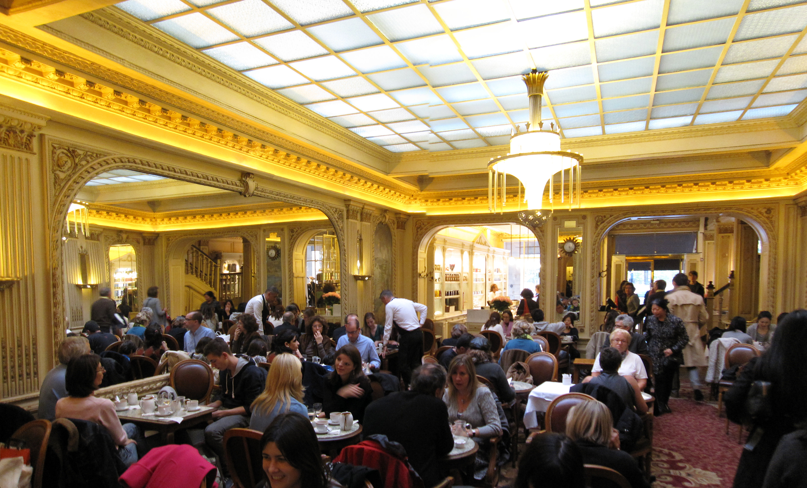 Interior of the Angelina café in Paris.